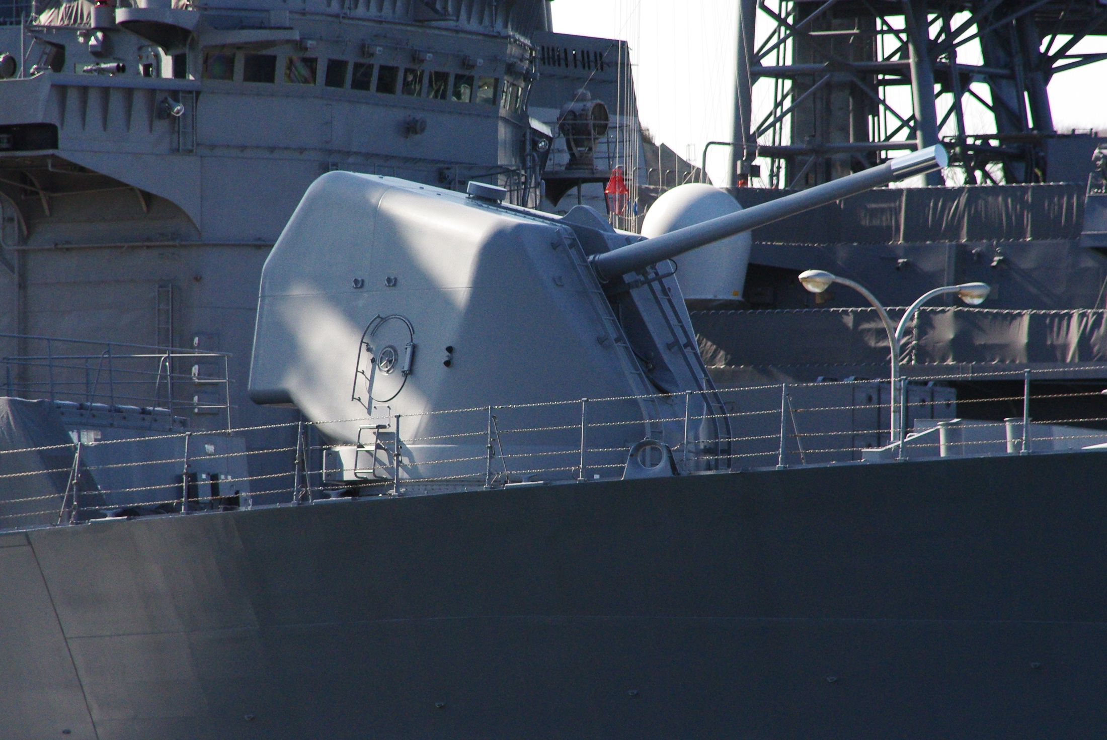 Oto Melara 127 mm gun on the bow deck of JS Takanami (DD-110). Location: Yokosuka.